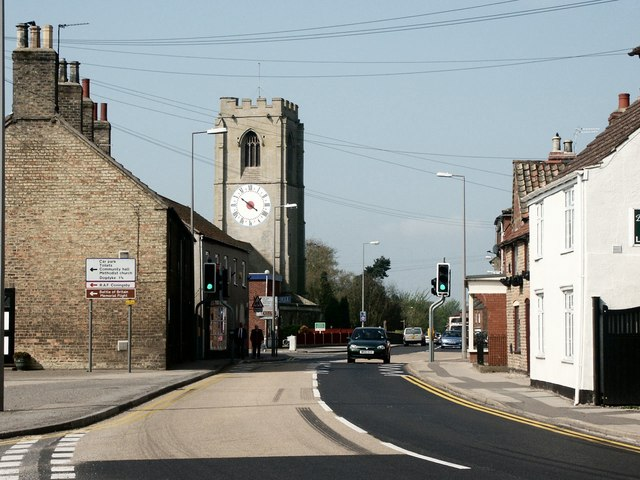 High Street, Coningsby The A153 - High Street, Coningsby, looking towards the Church of St Michael. Note the one-handed clock.